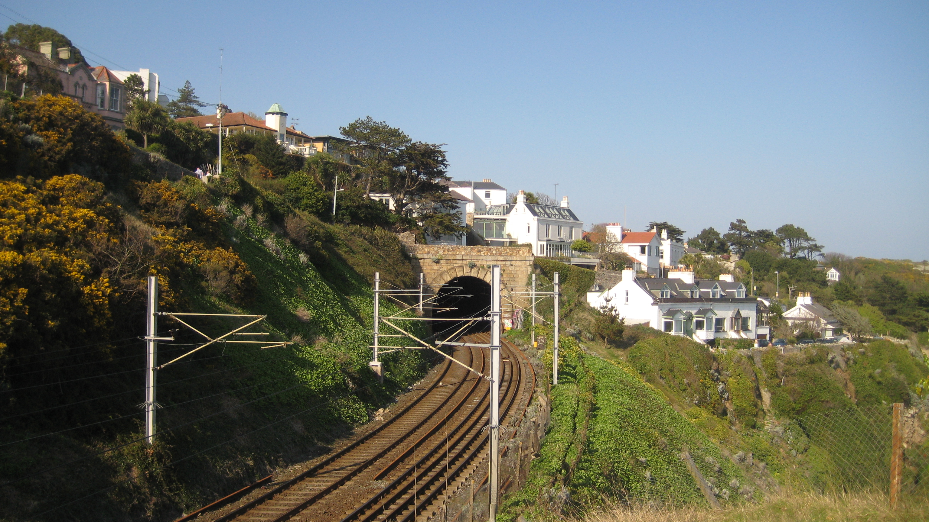 The DART line in Dalkey, along the south Dublin coast, which carries commuter, suburban and Rosslare intercity trains